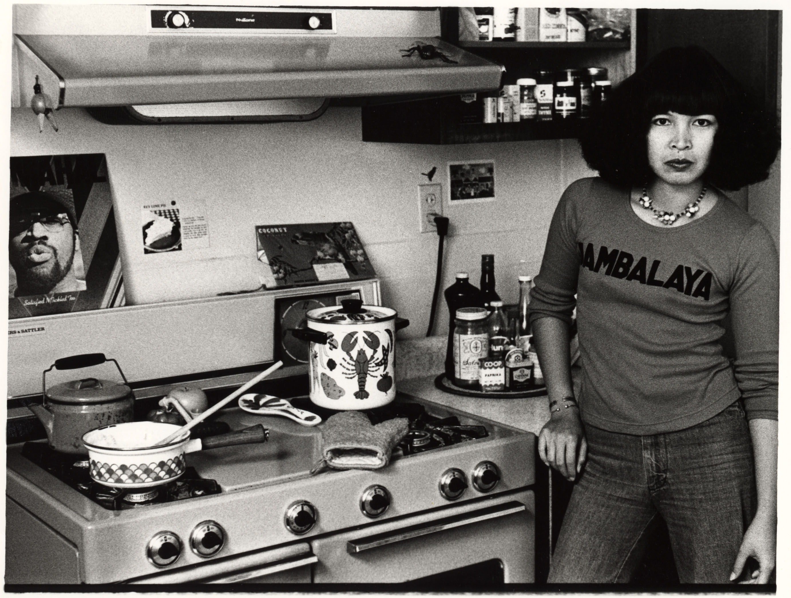 Poet cyn Zarco in kitchen of her apartment on 8th Avenue in San Francisco, California, 1975.